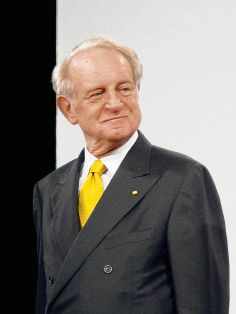 Johannes Rau, Germany's then Federal President, during the finale event of the debating competition "Jugend debattiert" in the main studio of the RBB ("Rundfunk Berlin-Brandenburg") in Berlin on May 16, 2004